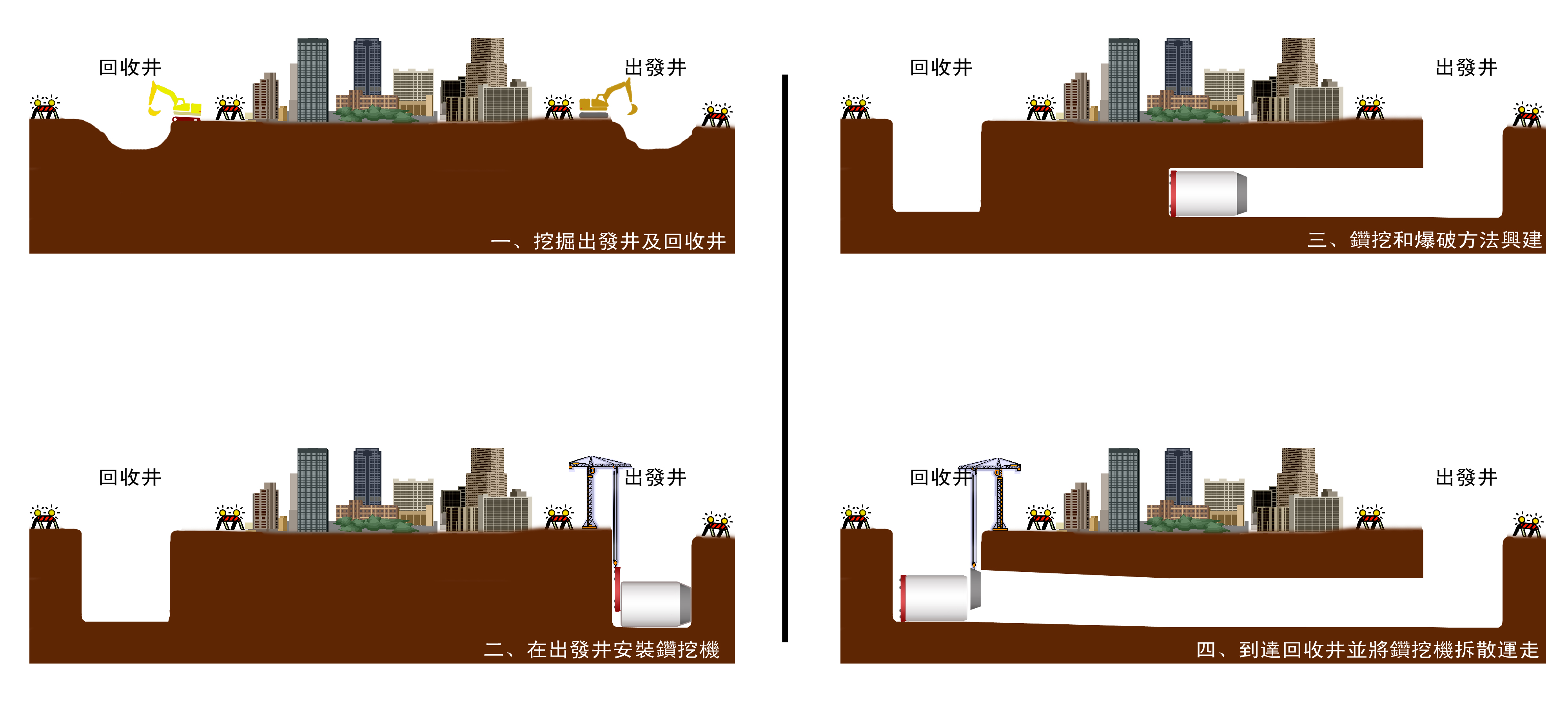 How to build Bored Tunnel